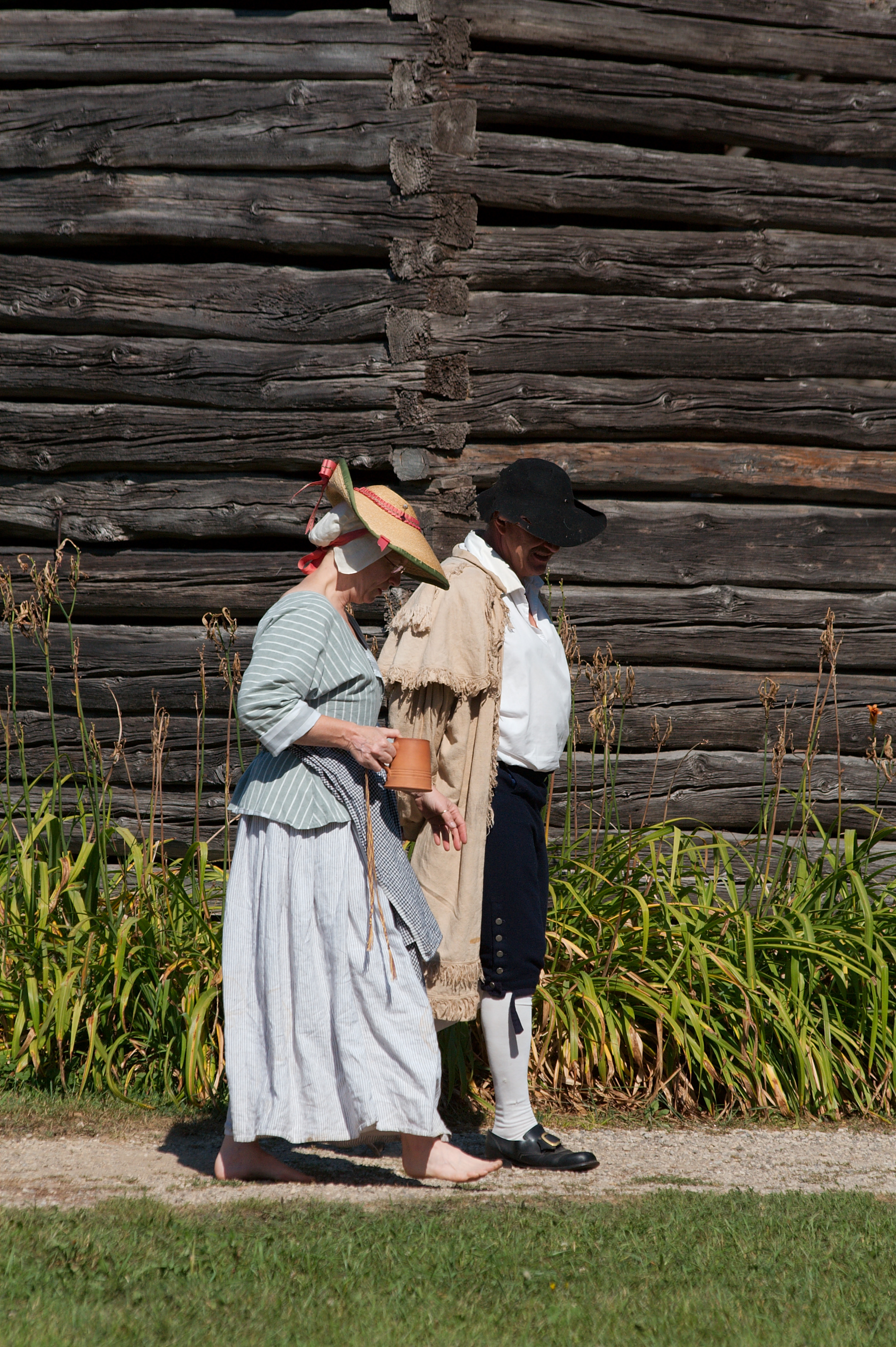 Pioneer Village, living history museum, in the Town of Saukville, Ozaukee County, Wisconsin